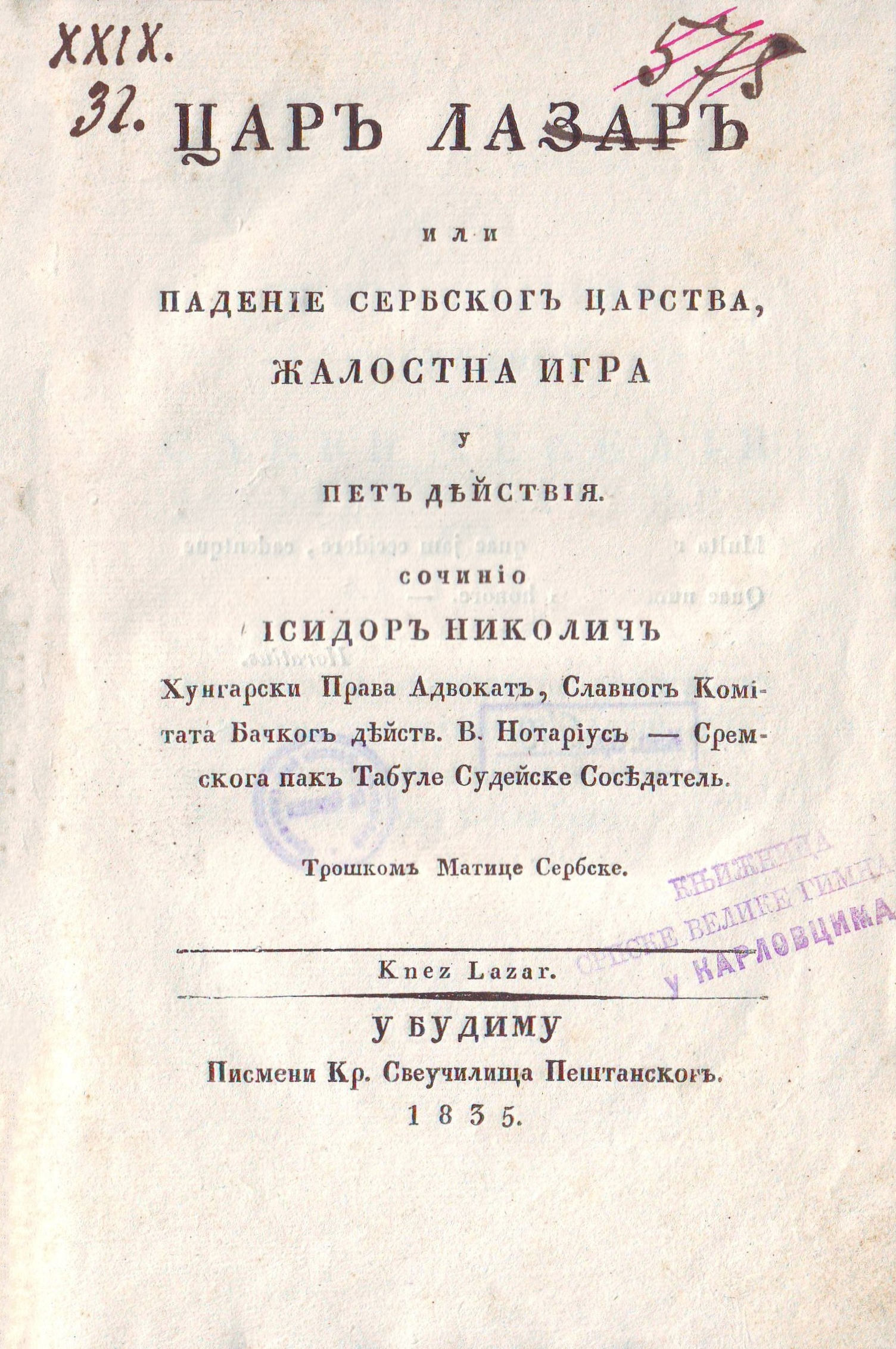 Cover of Car Lazar (1835) by Isidor Nikolić. Srpski (latinica): Naslovna strana drame Car Lazar (1835) Isidora Nikolića.